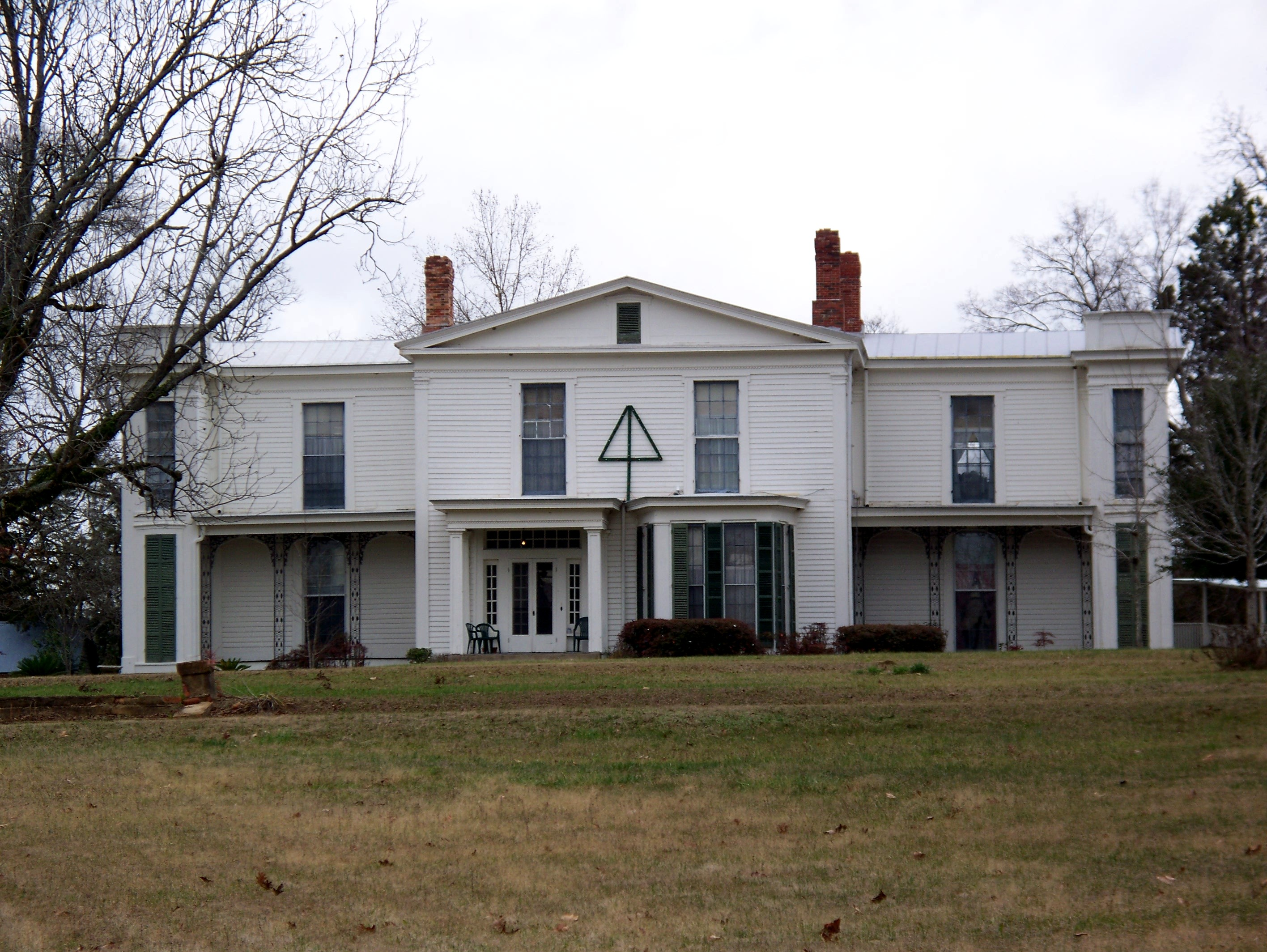 Westwood plantation house in 2008. It was begun in 1836 and completed in its current form in 1850. On the National Register of Historic Places.